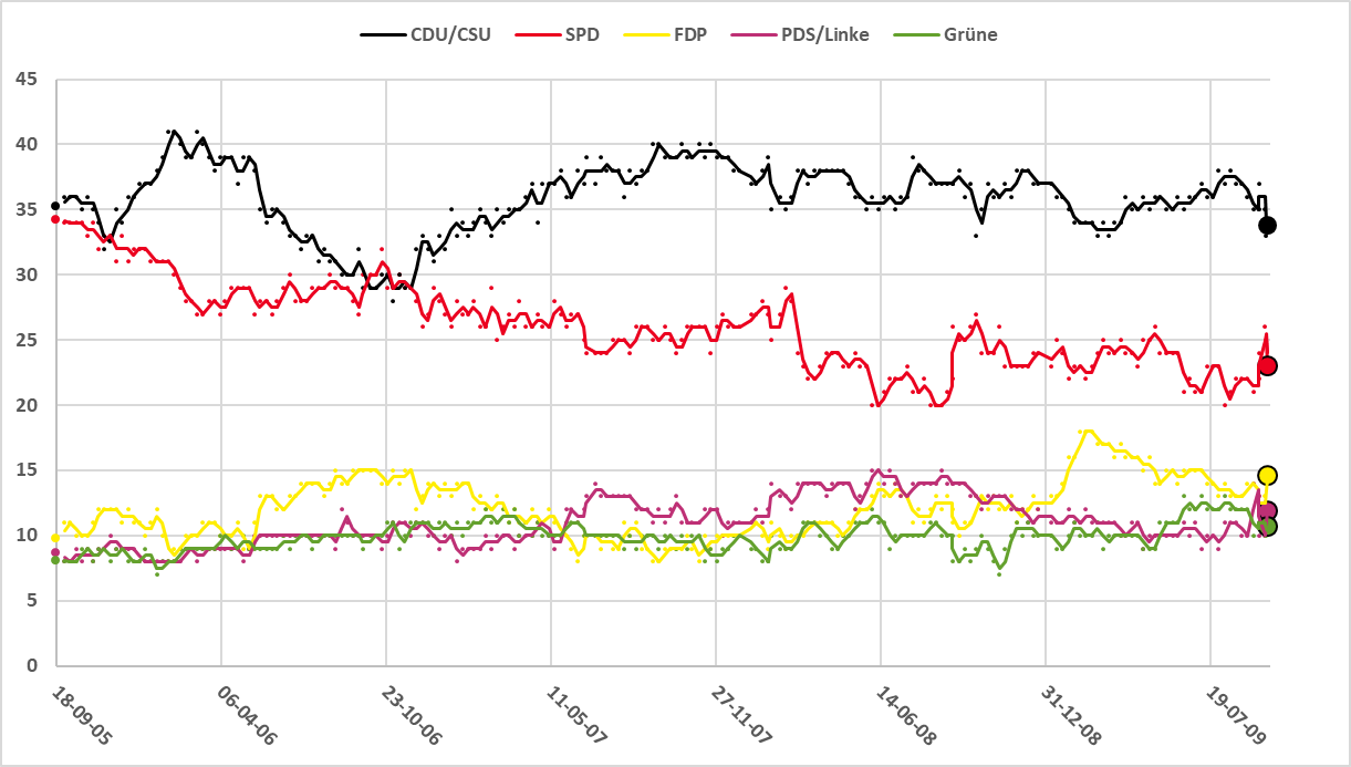 German Bundestag opinion poll graph from 2005 to 2009.